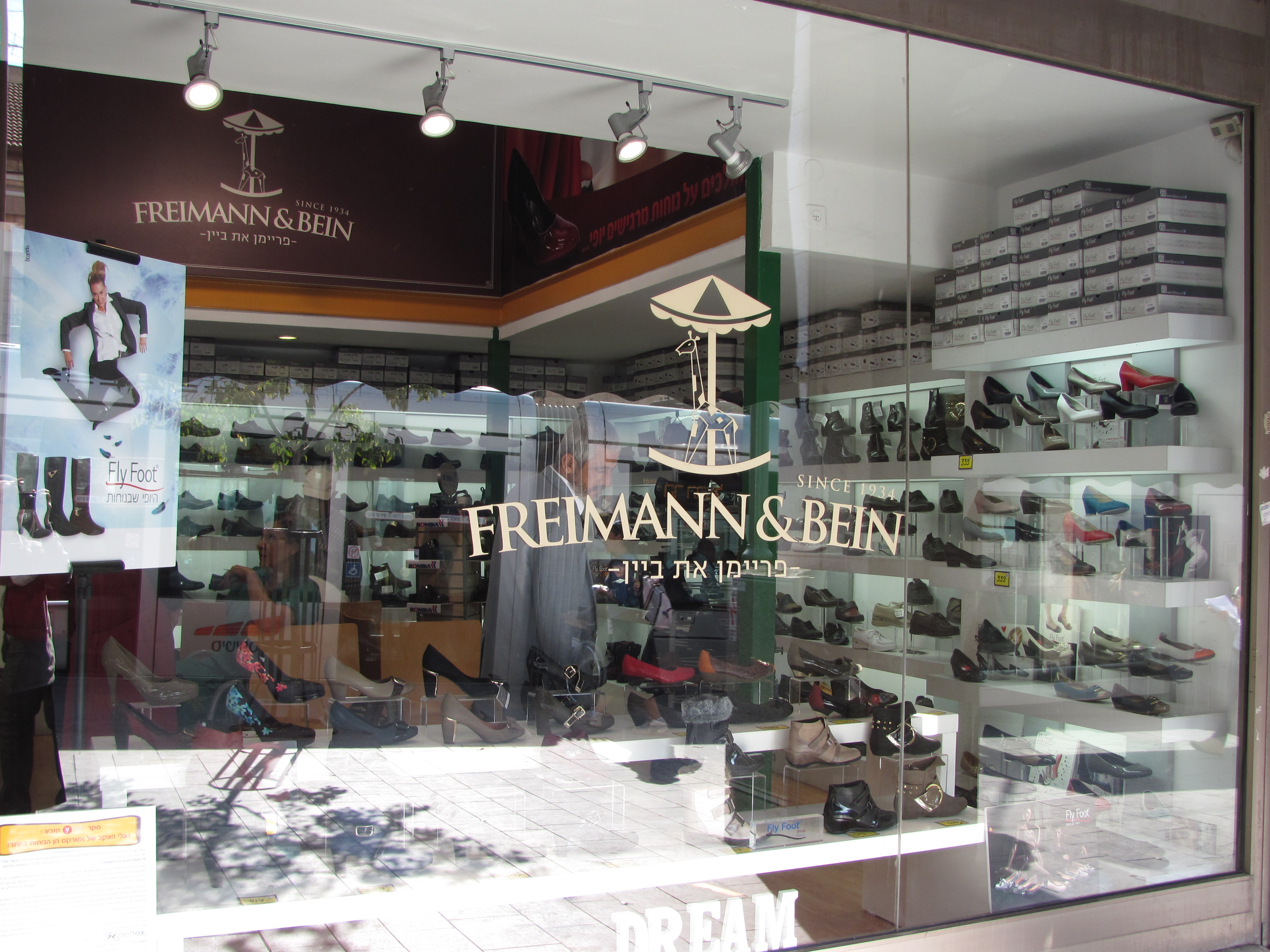 Front window of Freimann & Bein shoe store, 50 Jaffa Road, Jerusalem, Israel.